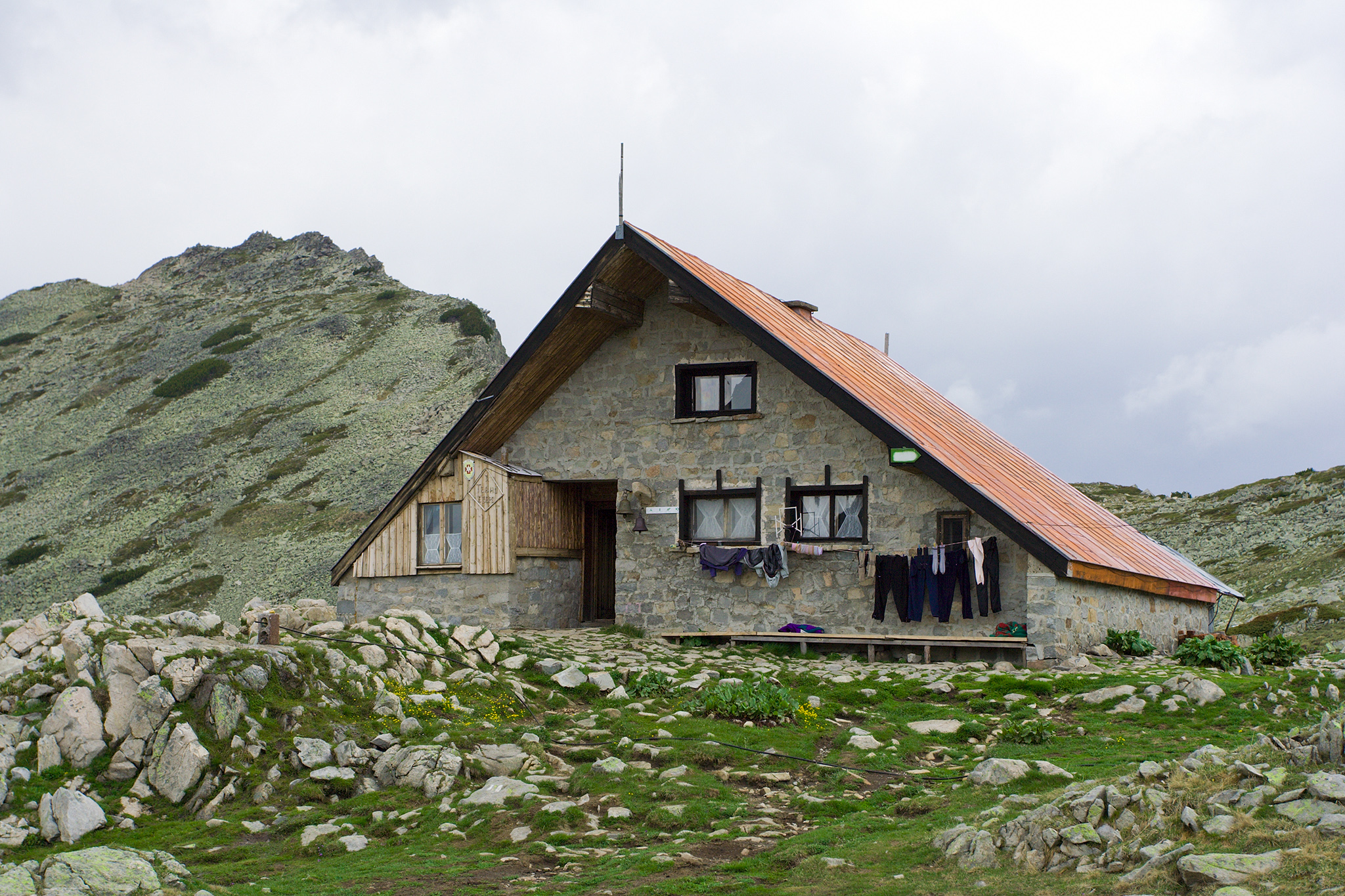 Tevno ezero alpine shelter, Pirin mntn, Bulgaria